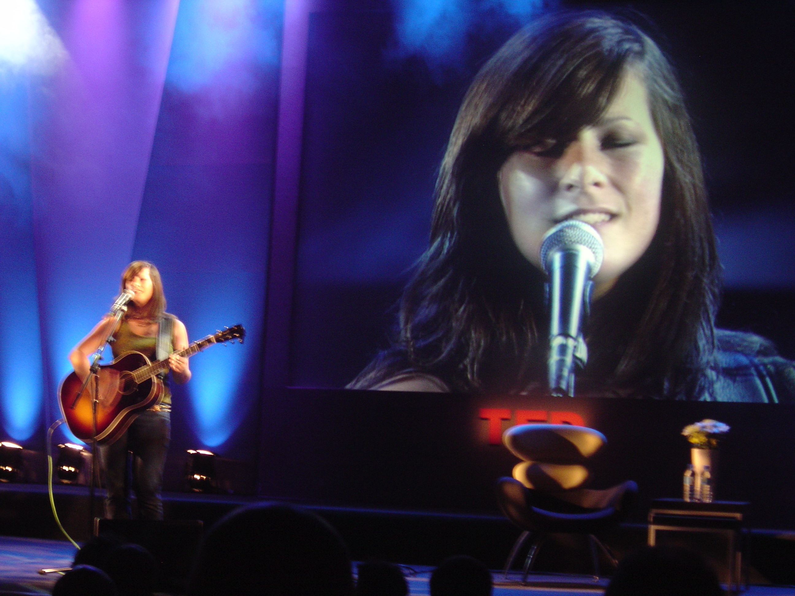 Photo of singer Kate Walsh, taken by Jimmy Wales at TEDGLOBAL, 2005, in Oxford, England.